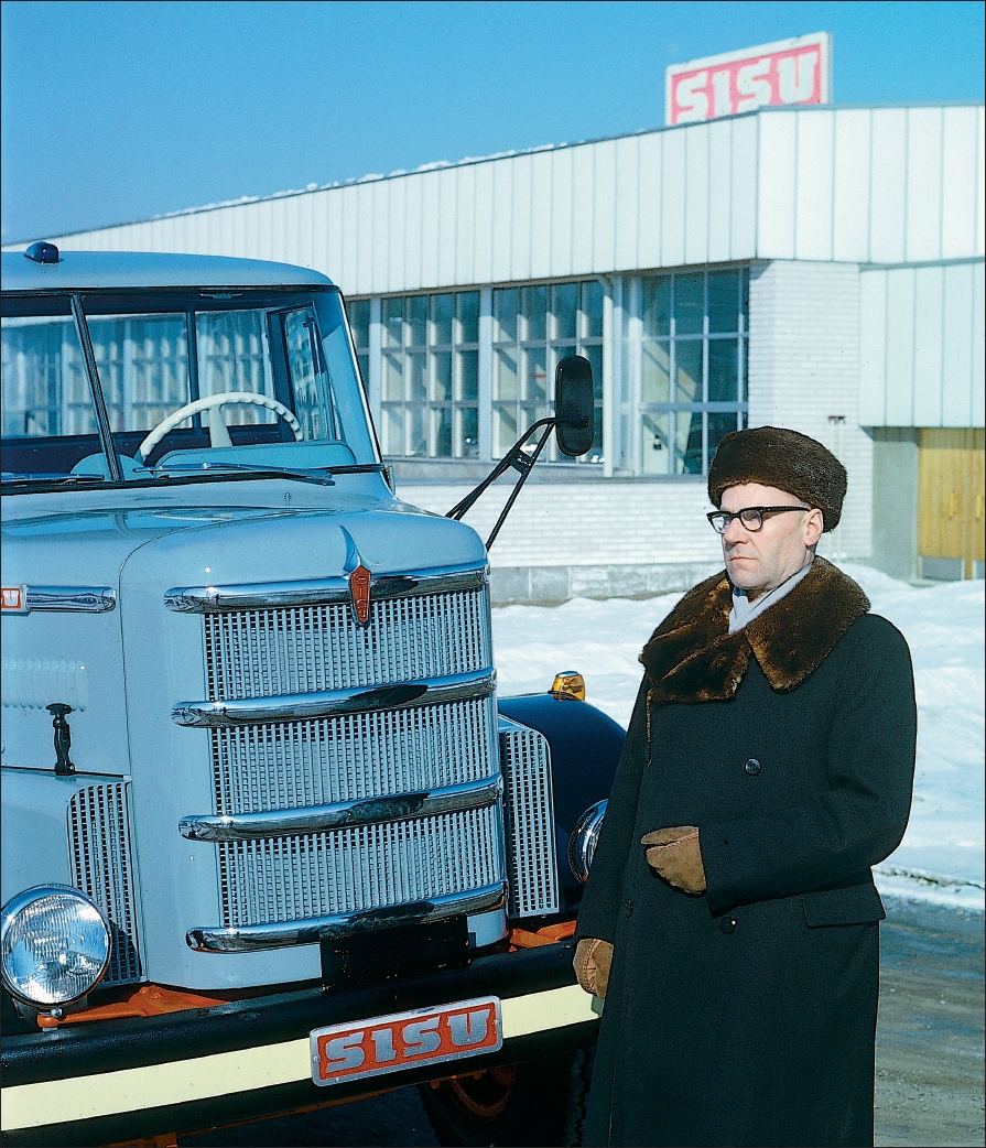 Tor Nessling, the General Manager of Oy Suomen Autoteollisuus Ab, in a presentation event of new Kontio-Sisu K-138SV model in Konala, Helsinki.